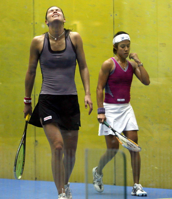 Shelley Kitchen of New Zealand reacts after losing the final point to Nicol David during the 2007 CIMB Malaysian Open.